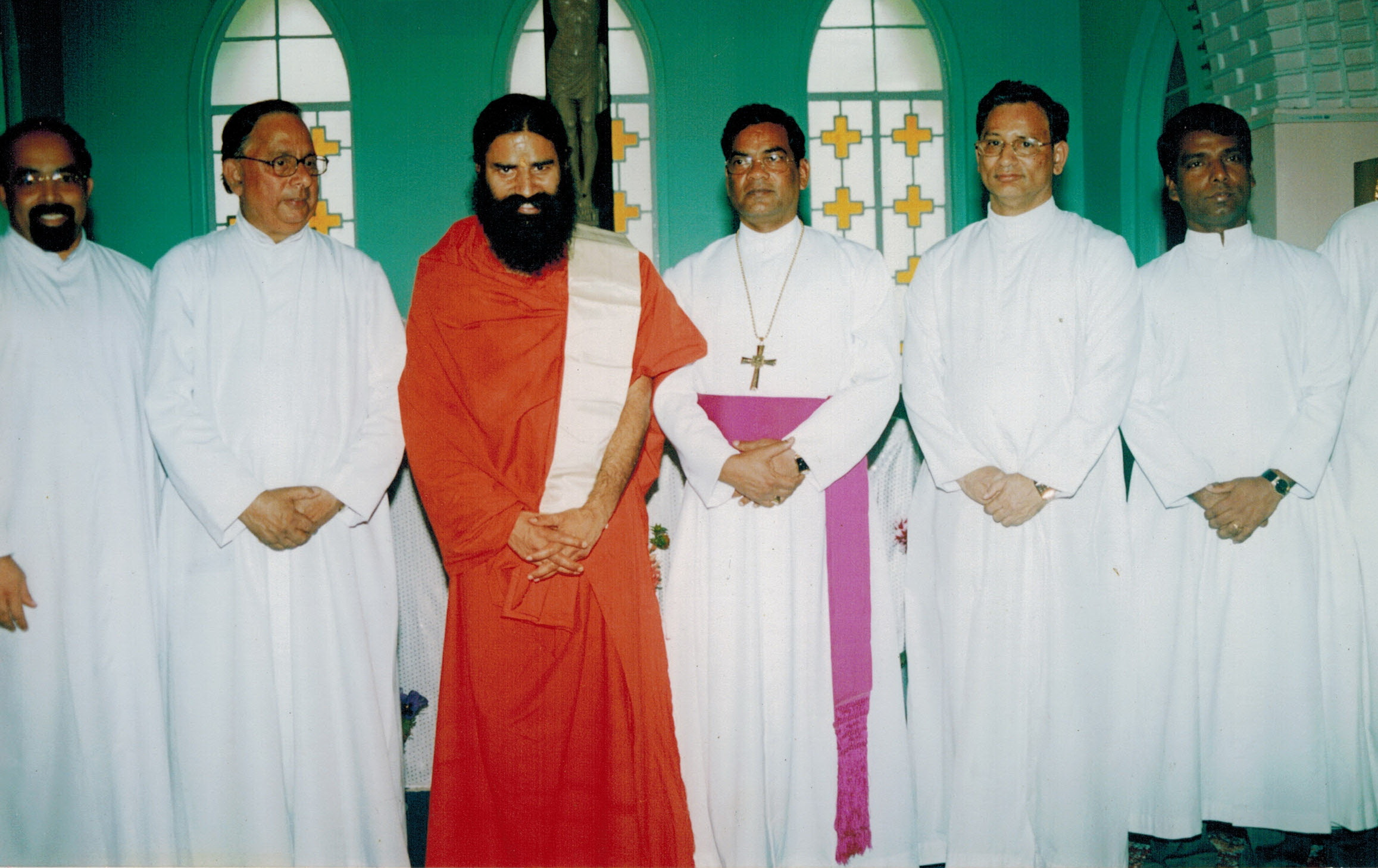 Hindu Yoga Instructor hosted by Diocese of Bhagalpur